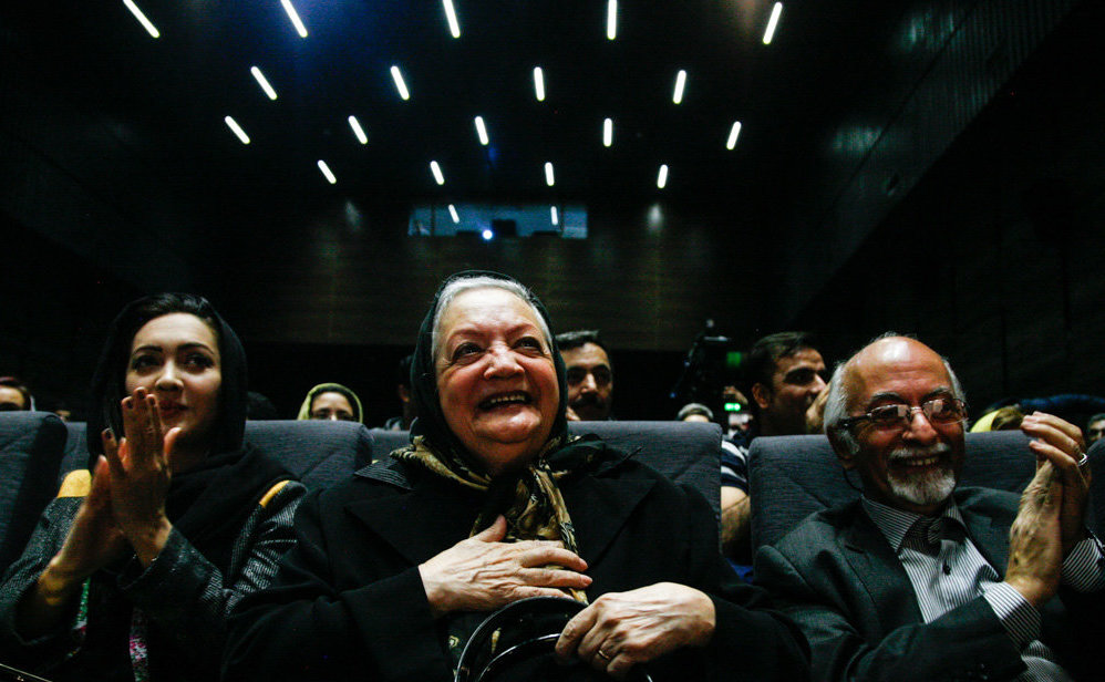 The Honoring ceremony of of Shahla Riahi, an Iranian actress of theater, cinema and television, held on November 29, 2015 by Niki Karimi, at Campus Charsu, Tehran. Right: Ismail Riahi, Center: Shahla Riahi, left:Niki Karimi